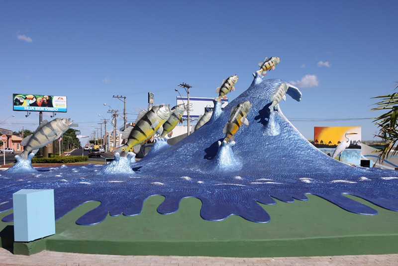 Monumento Tucunaré